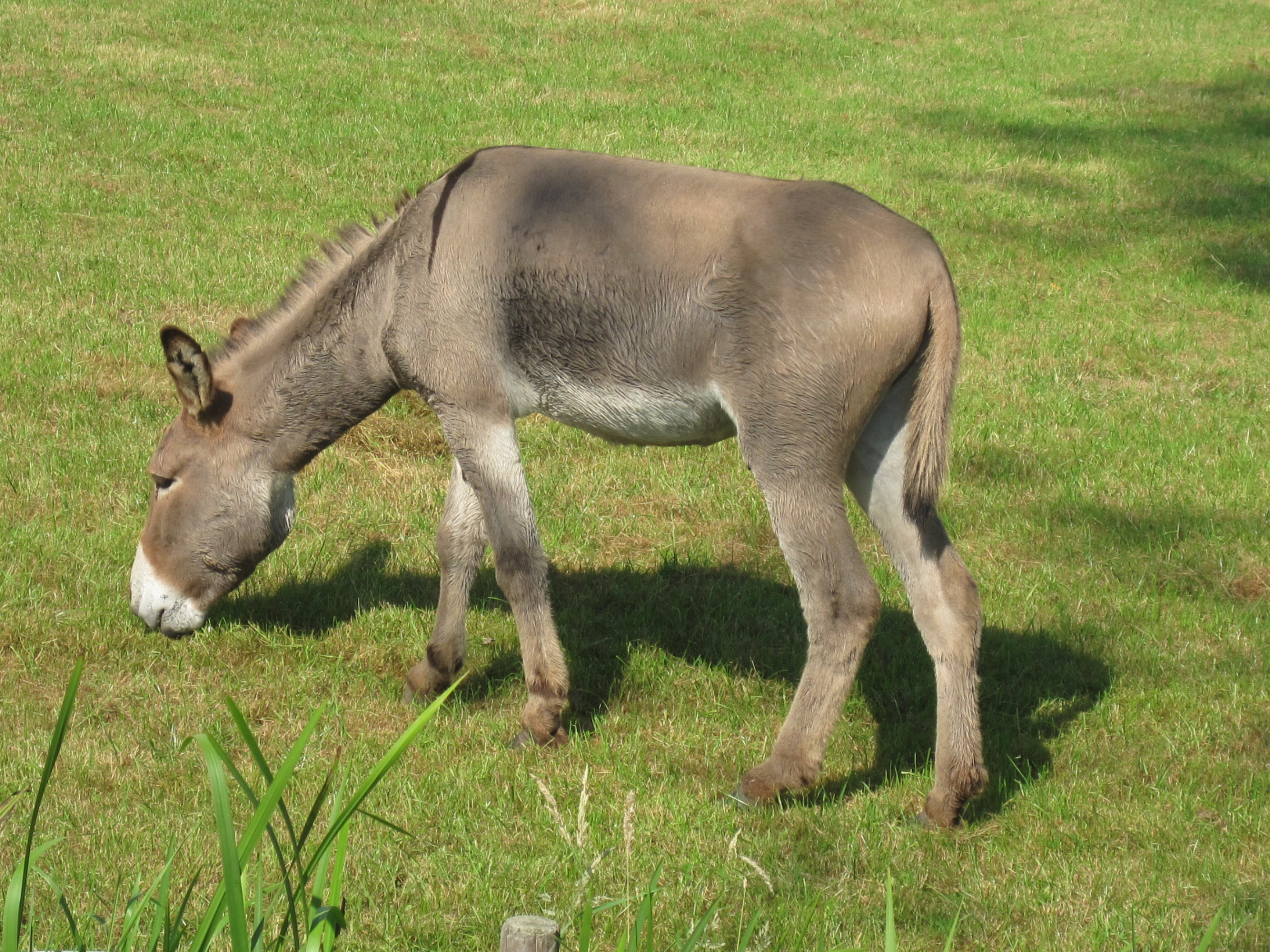 Equus asinus (Donkey), Arnhem, the Netherlands